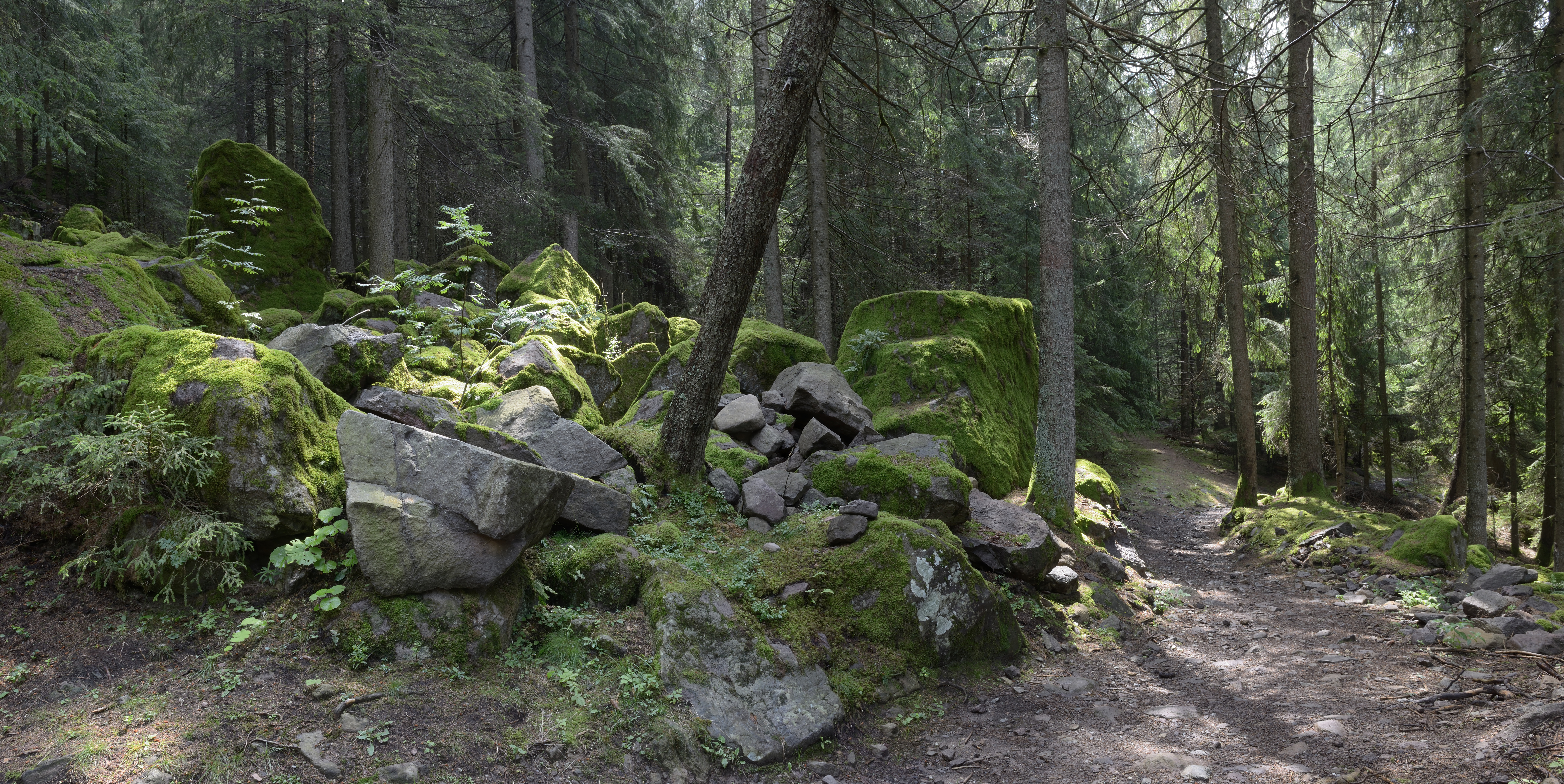 The Possteig trail in Pontives, St. Peter (Lajen), South Tyrol.